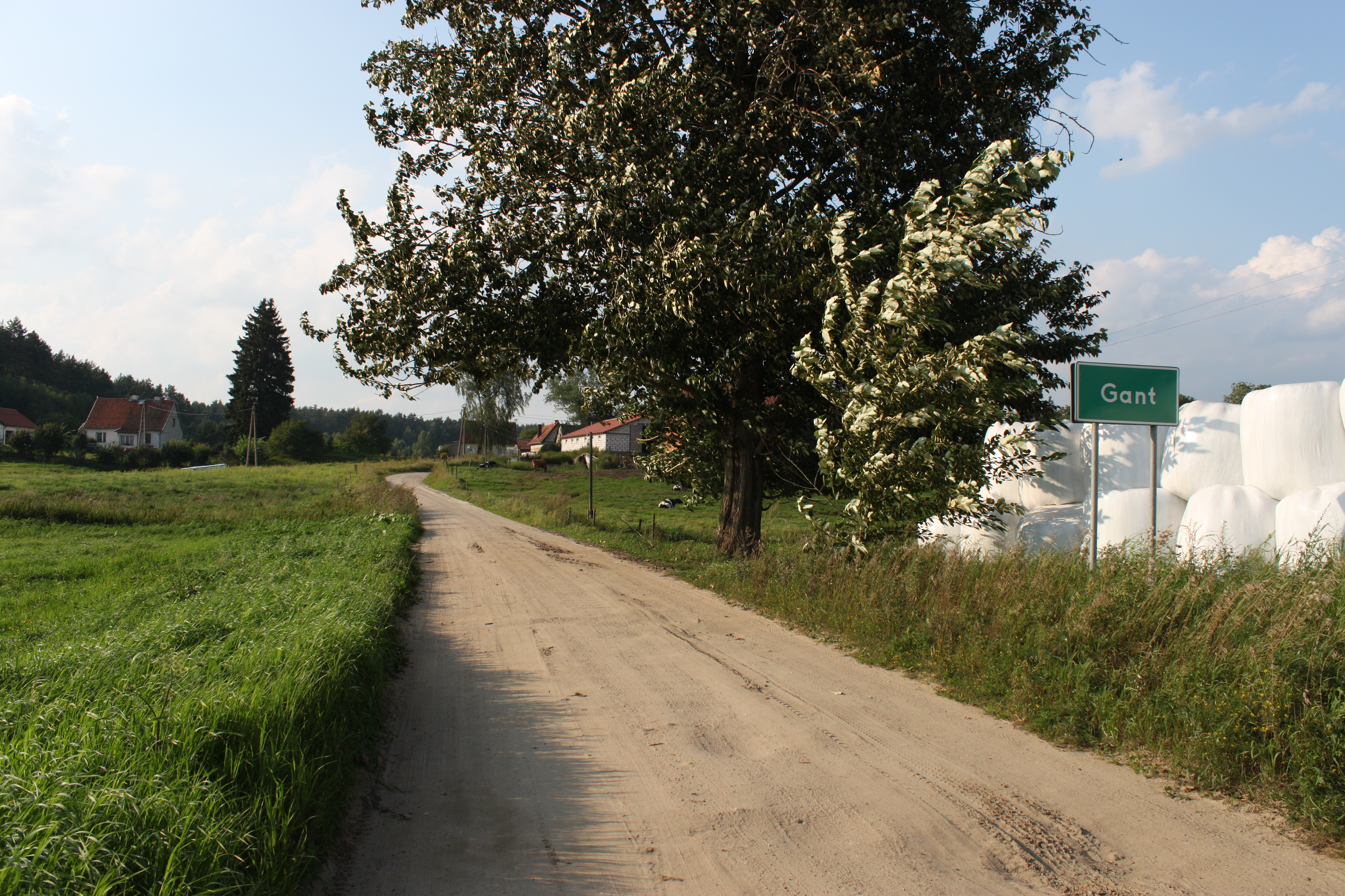 Road in Gant.